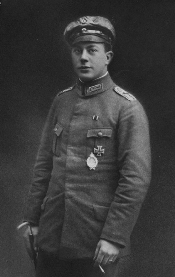 WWI fighter pilot